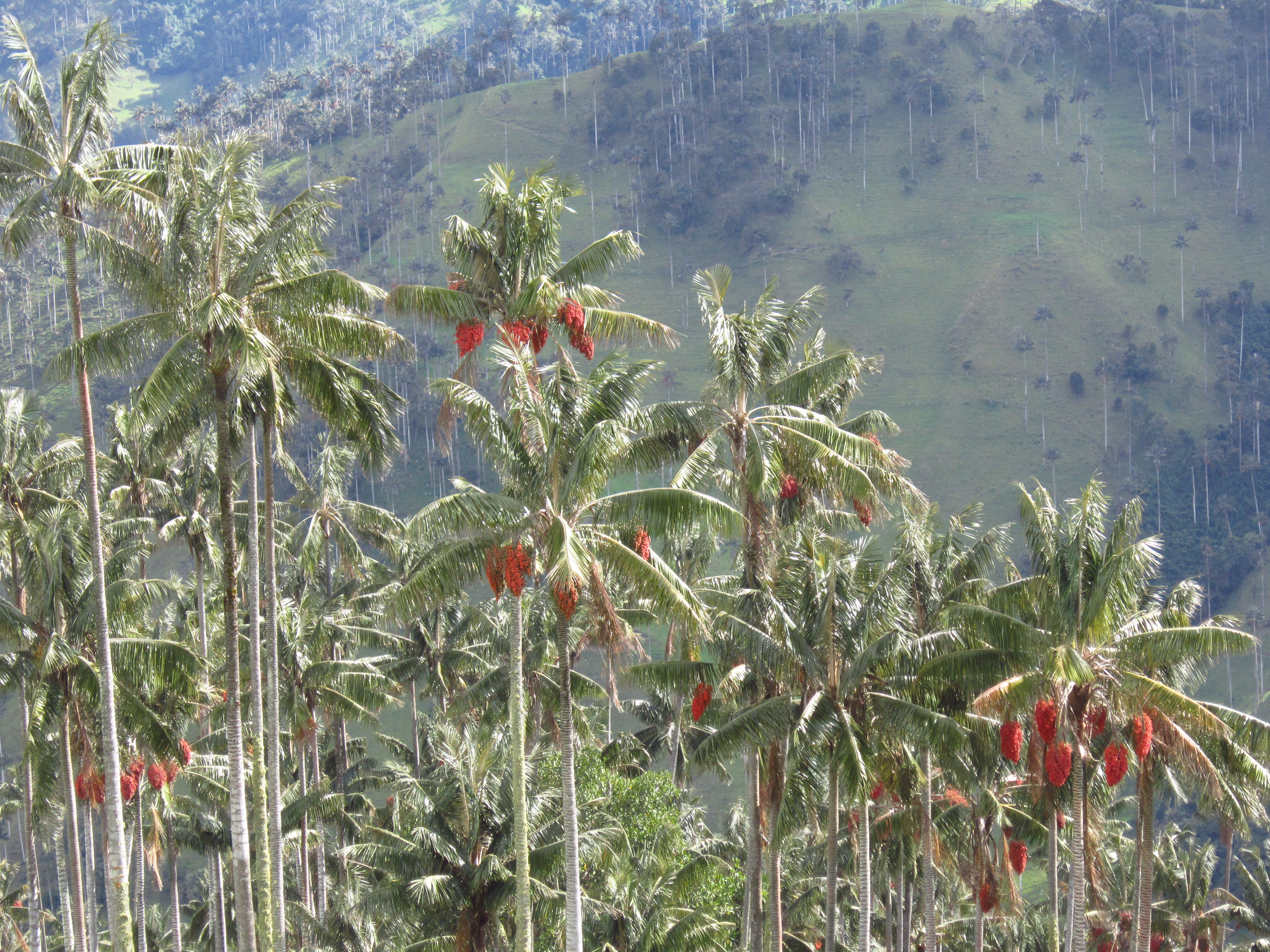 La Carbonera, Tolima.